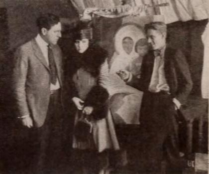 Still from the American drama film The Painted Madonna (1917) with Gretchen Hartman (credited as Sonia Markova) and two unidentified actors, on page 21 of the November 24, 1917 Exhibitors Herald.